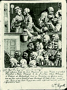 Subscription Ticket for Hogarth's 'a Rake's Progress'